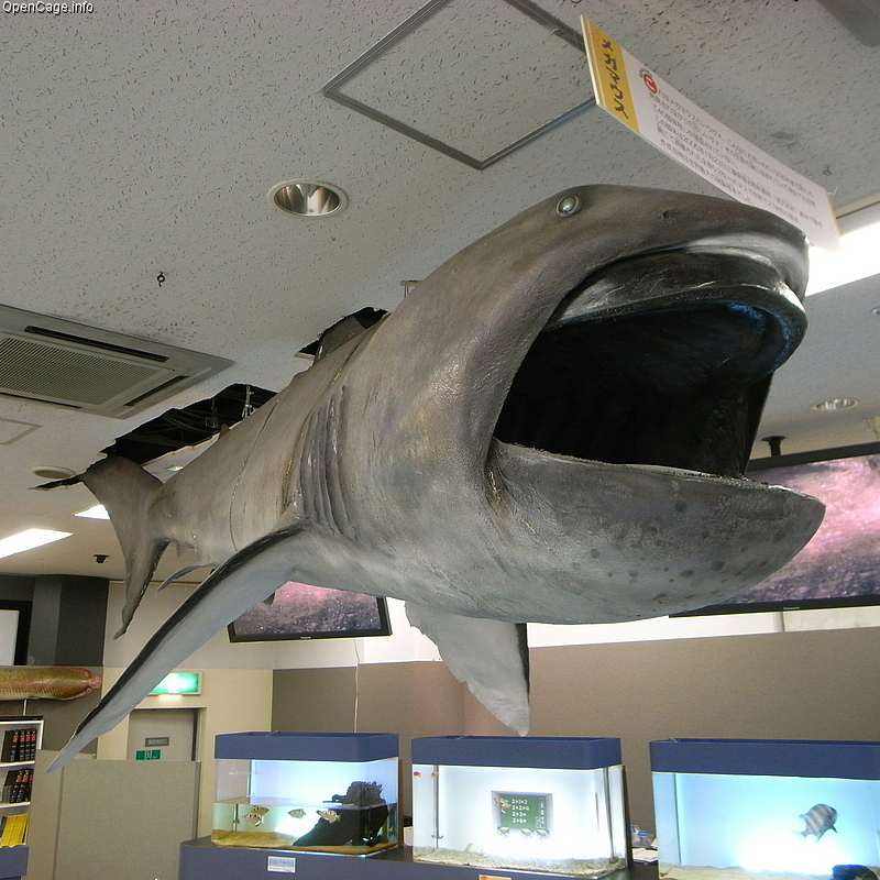 Megamouth shark Megachasma pelagios at Toba Aquarium, Japan